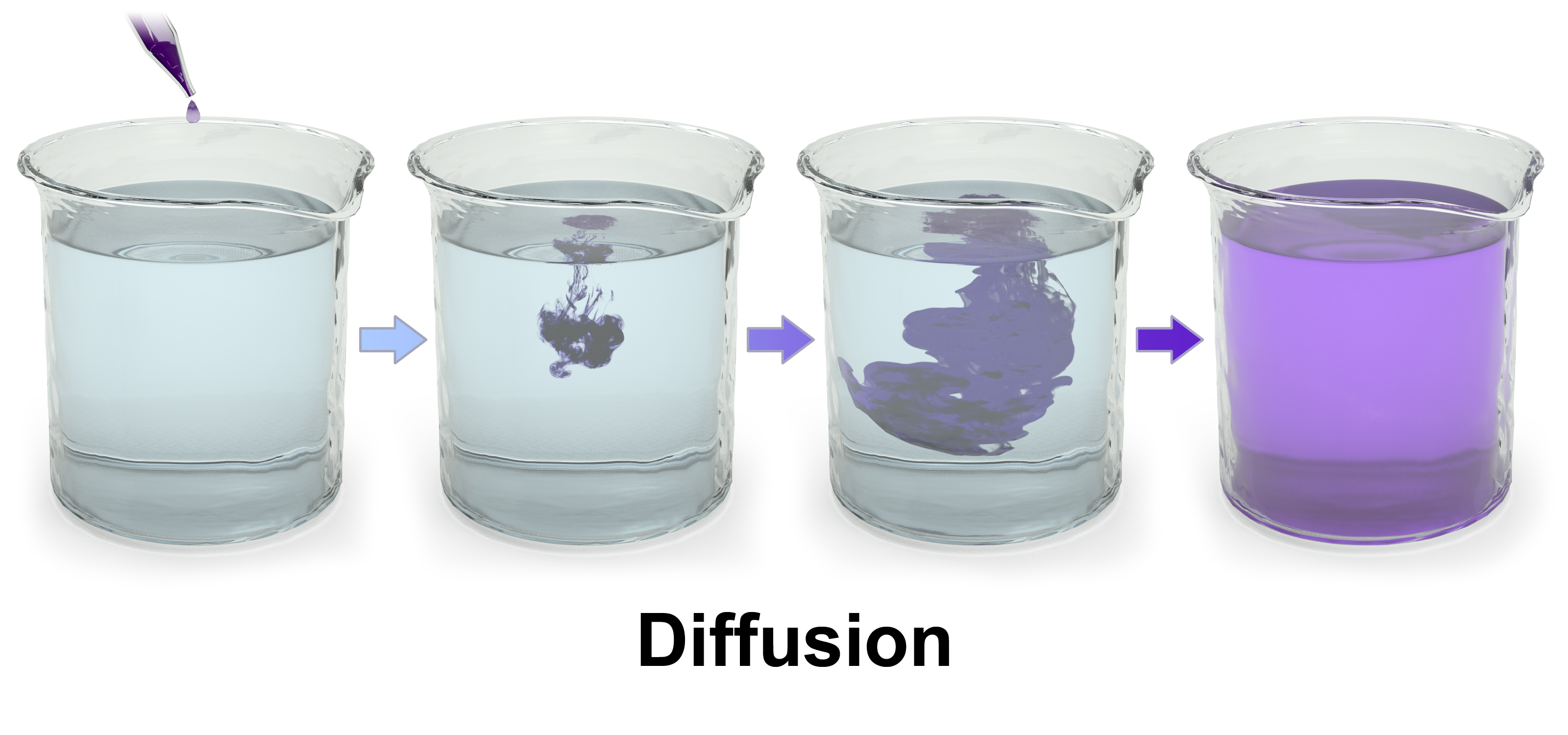 Diffusion. See a full animation of this medical topic.